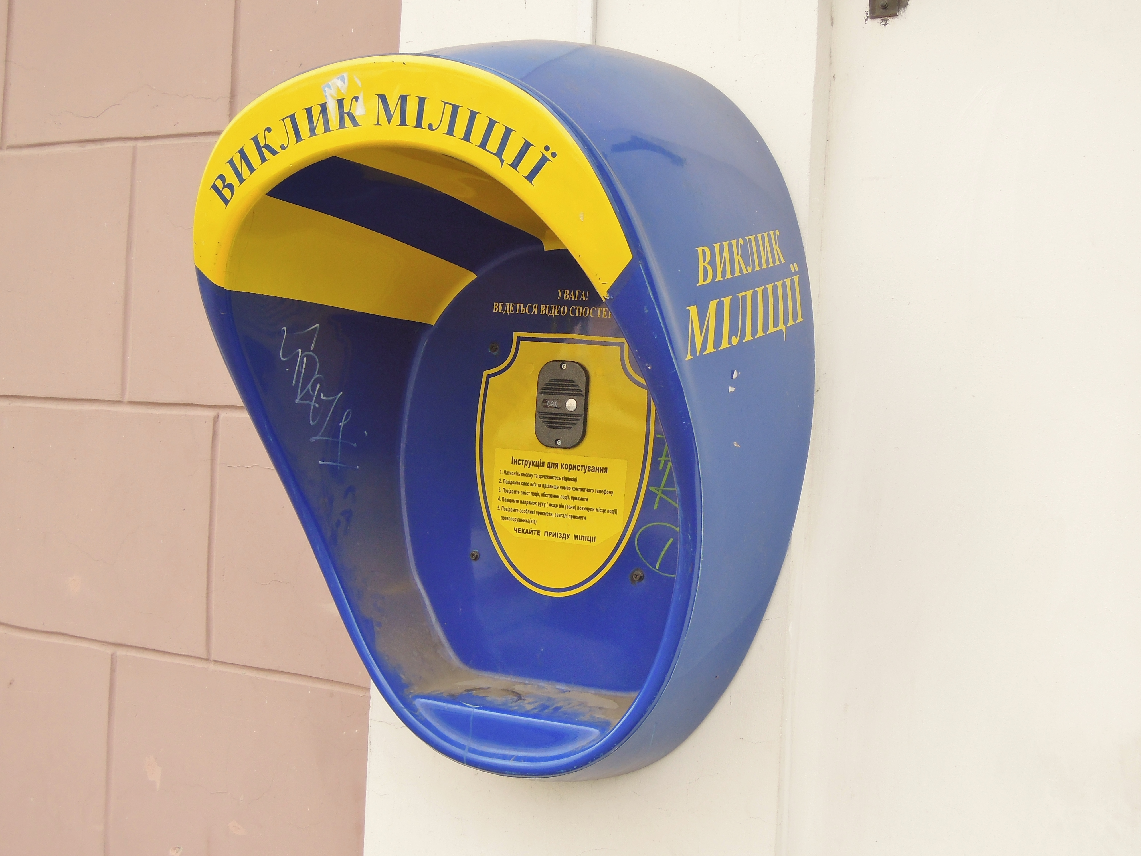 Police Box in Odessa